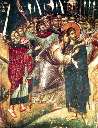 Kiss of Judas (fresco in Church of Saint Nicolas the Orphan)